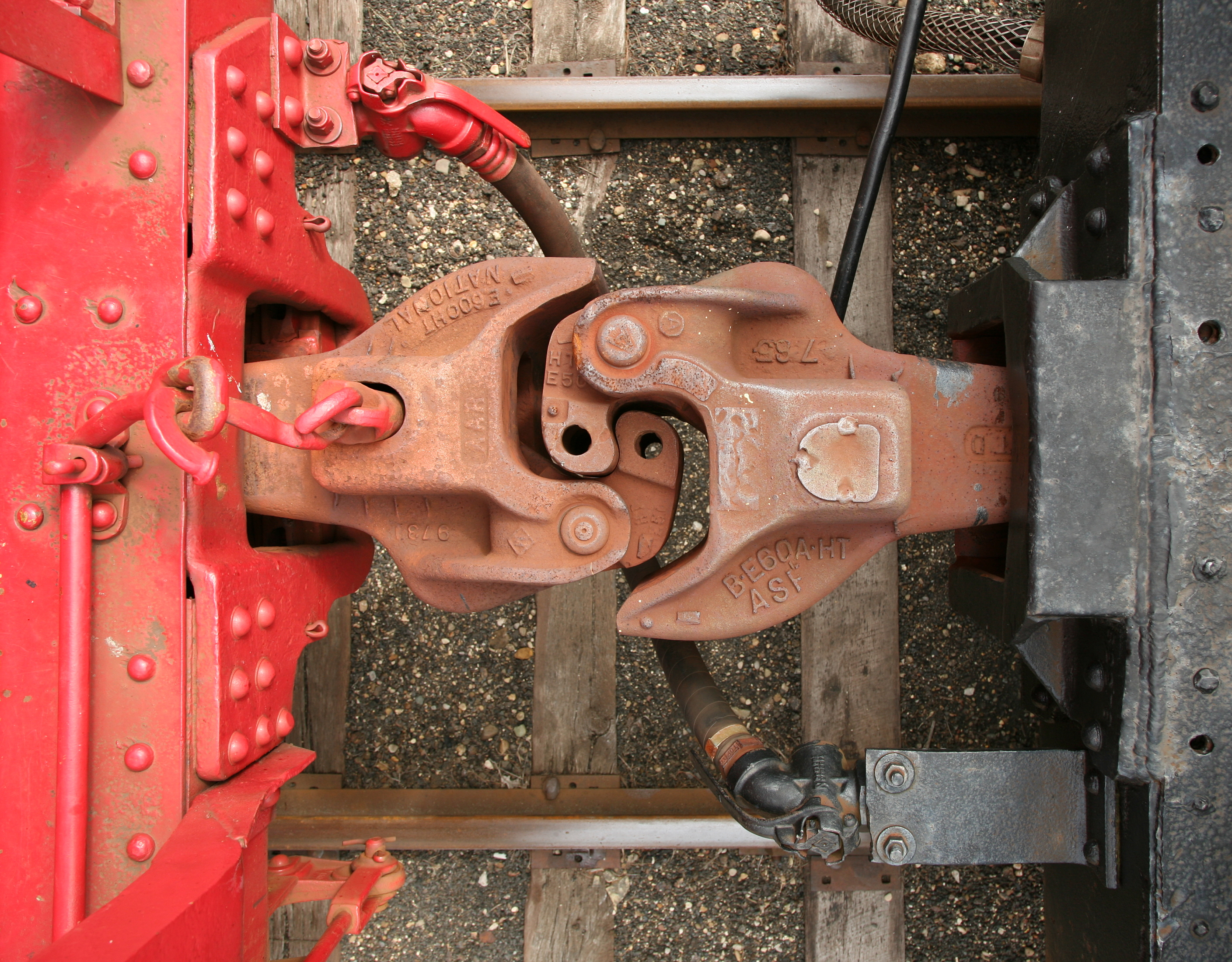 Train coupling AAR.